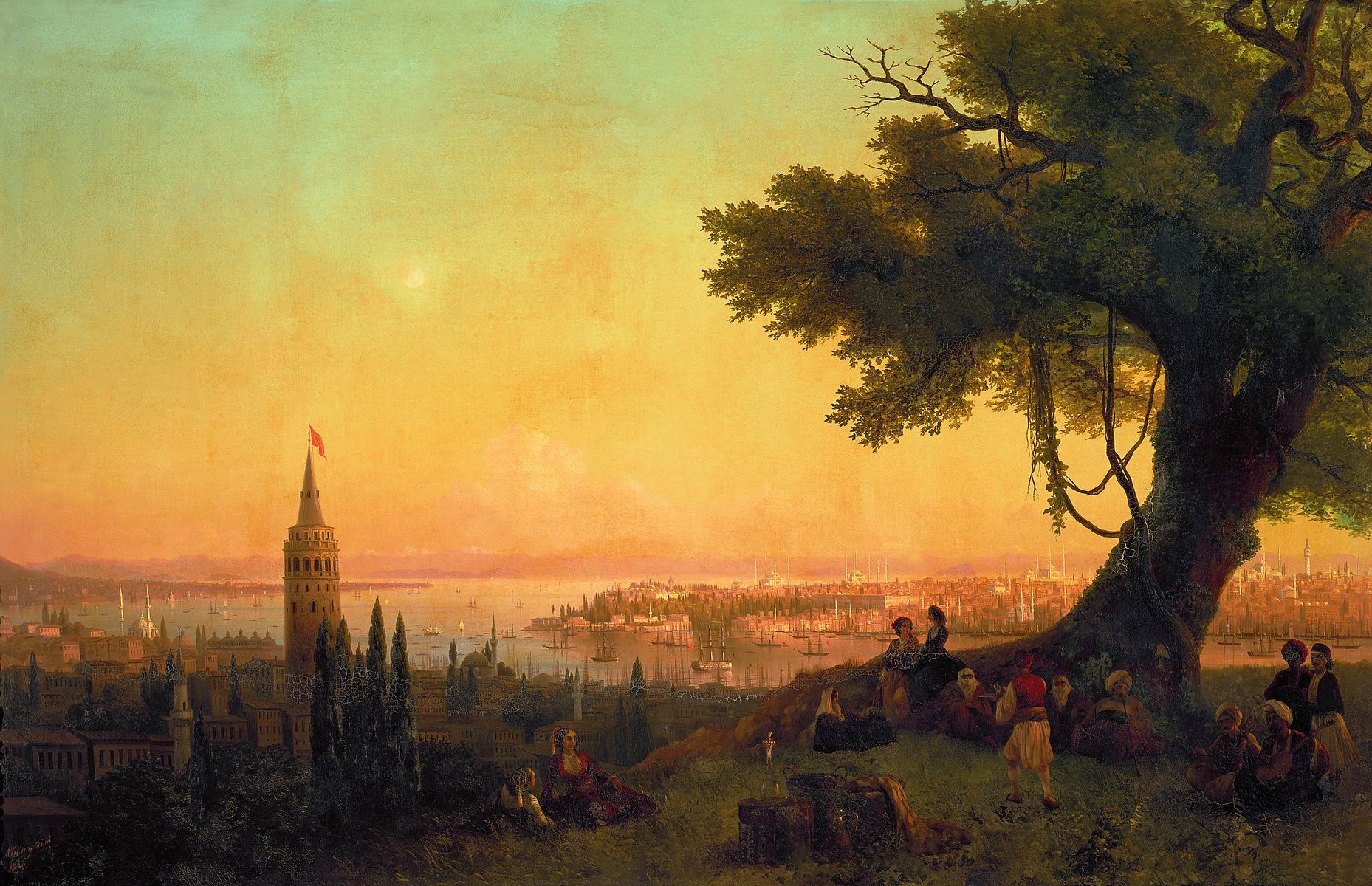 An oil painting, a cityscape, by Ivan Aivazovsky. It depicts the Bosphorus, the Golden Horn and the Galata Tower in Istanbul during the Ottoman period. Galata Tower is seen with its previous conical roof, which was destroyed by a storm in 1875 (the current conical roof of Galata Tower was built during the restoration works between 1965 and 1967.) The human figures in the painting provide us with information regarding the traditions and daily life in the Ottoman Empire during the first half of the 19th century, before the Tanzimat reforms for Western style clothing became widely applied among the civilian population.